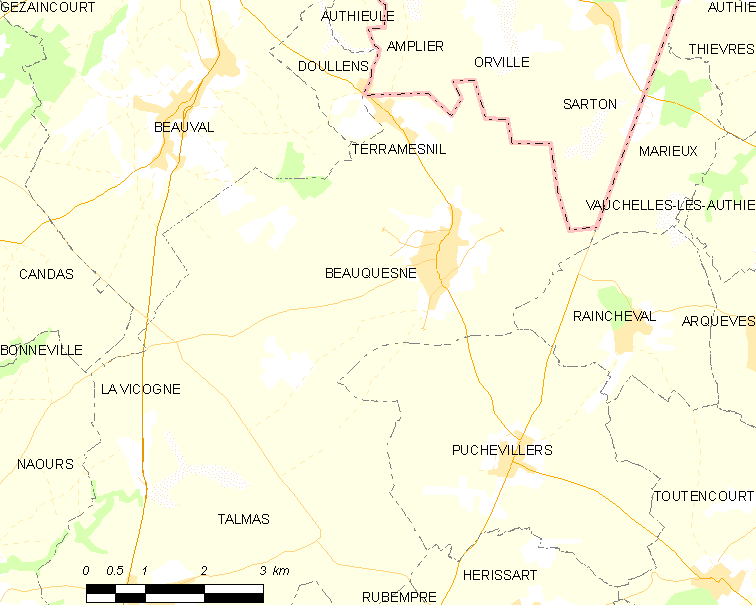 Map of French municipality Beauquesne